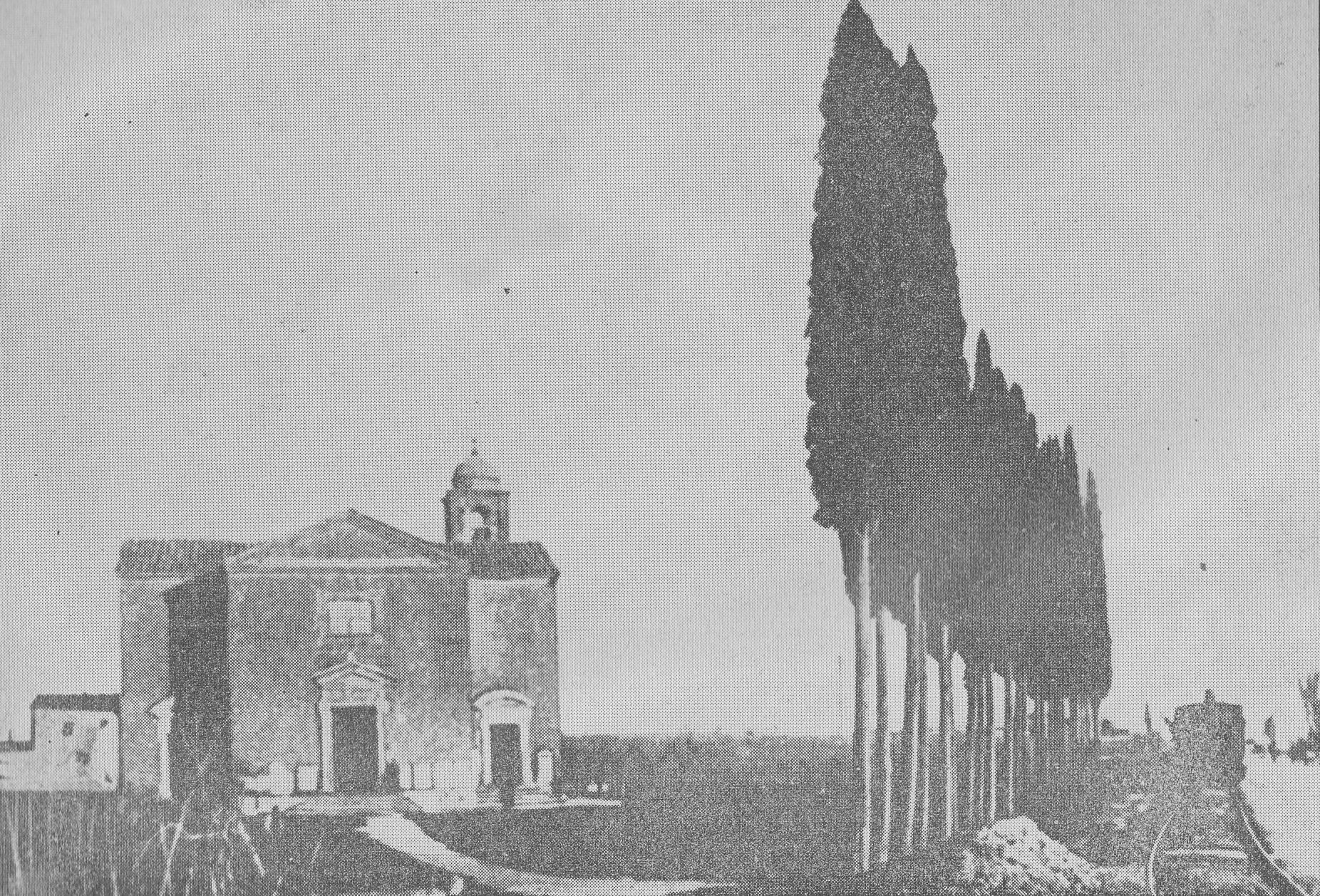 Church of Madonna dell'Acqua near Cascina, Pisa, Tuscany, Italy.